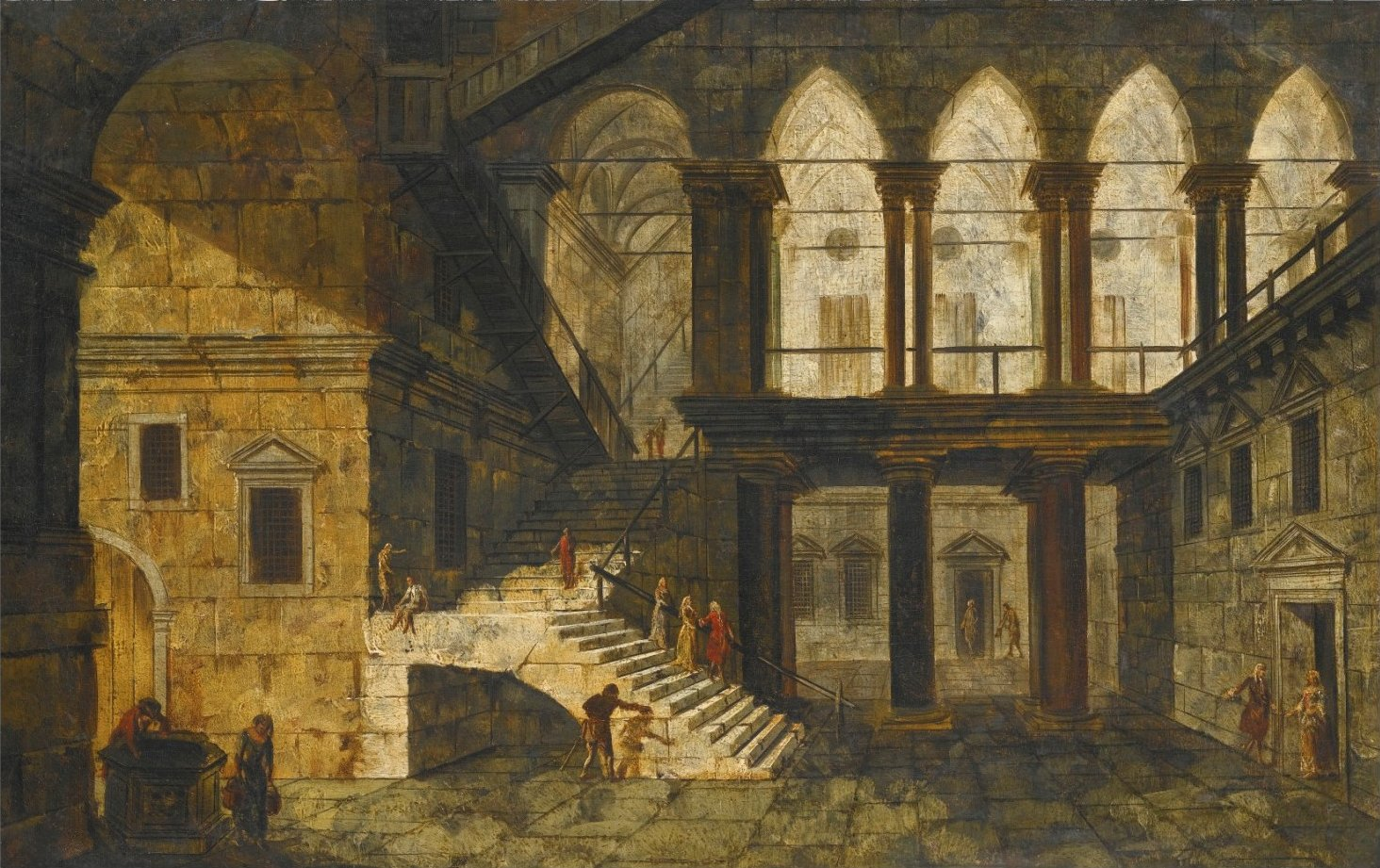 Architectural Fantasy with a Staircase in a Courtyard by Michele Marieschi, oil on canvas, 36.5 by 56.2 cm.